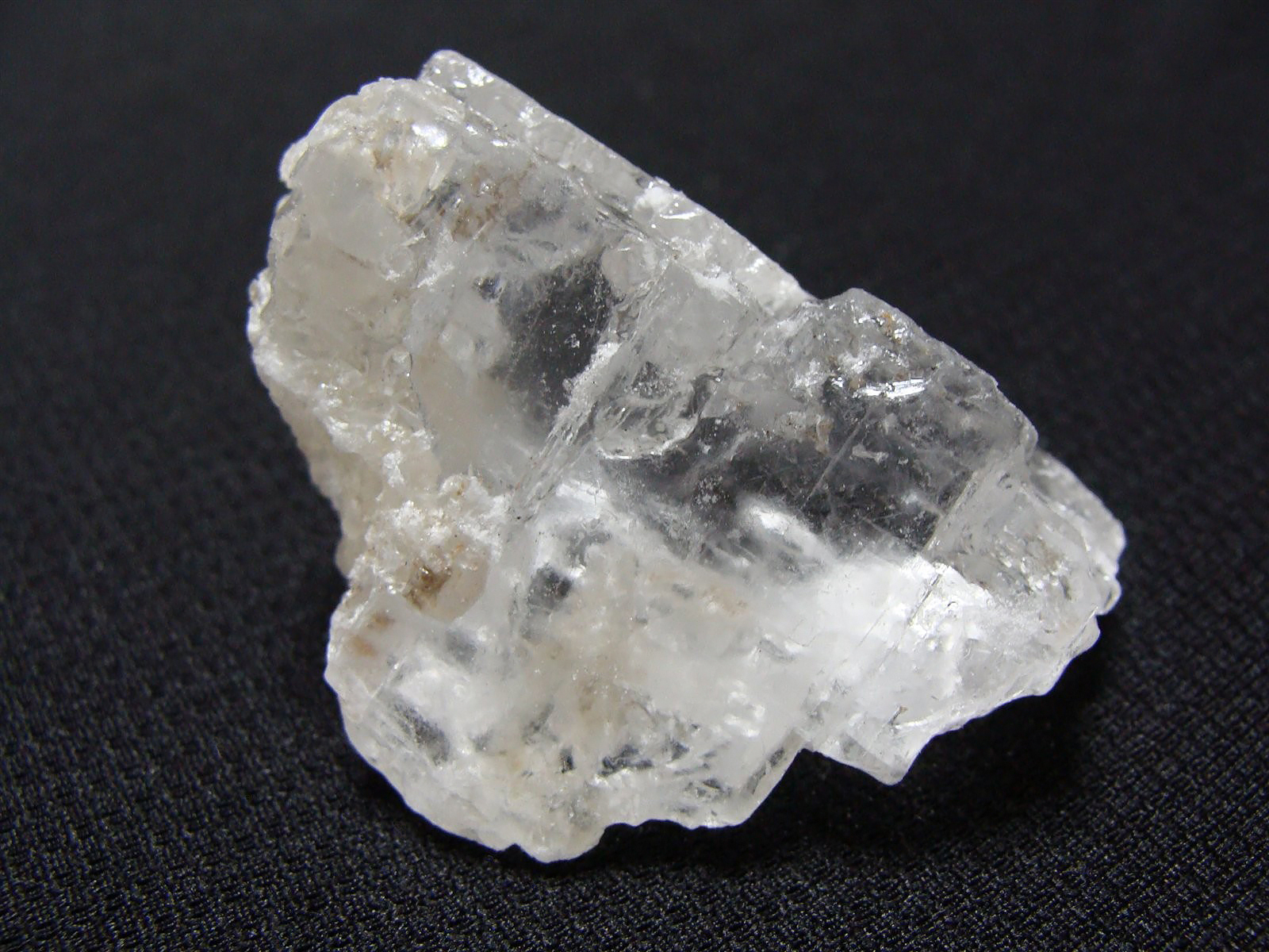 一般的な岩塩の塊（モンゴル産） Camera Details: Sony Cyber-shot DSC-H3